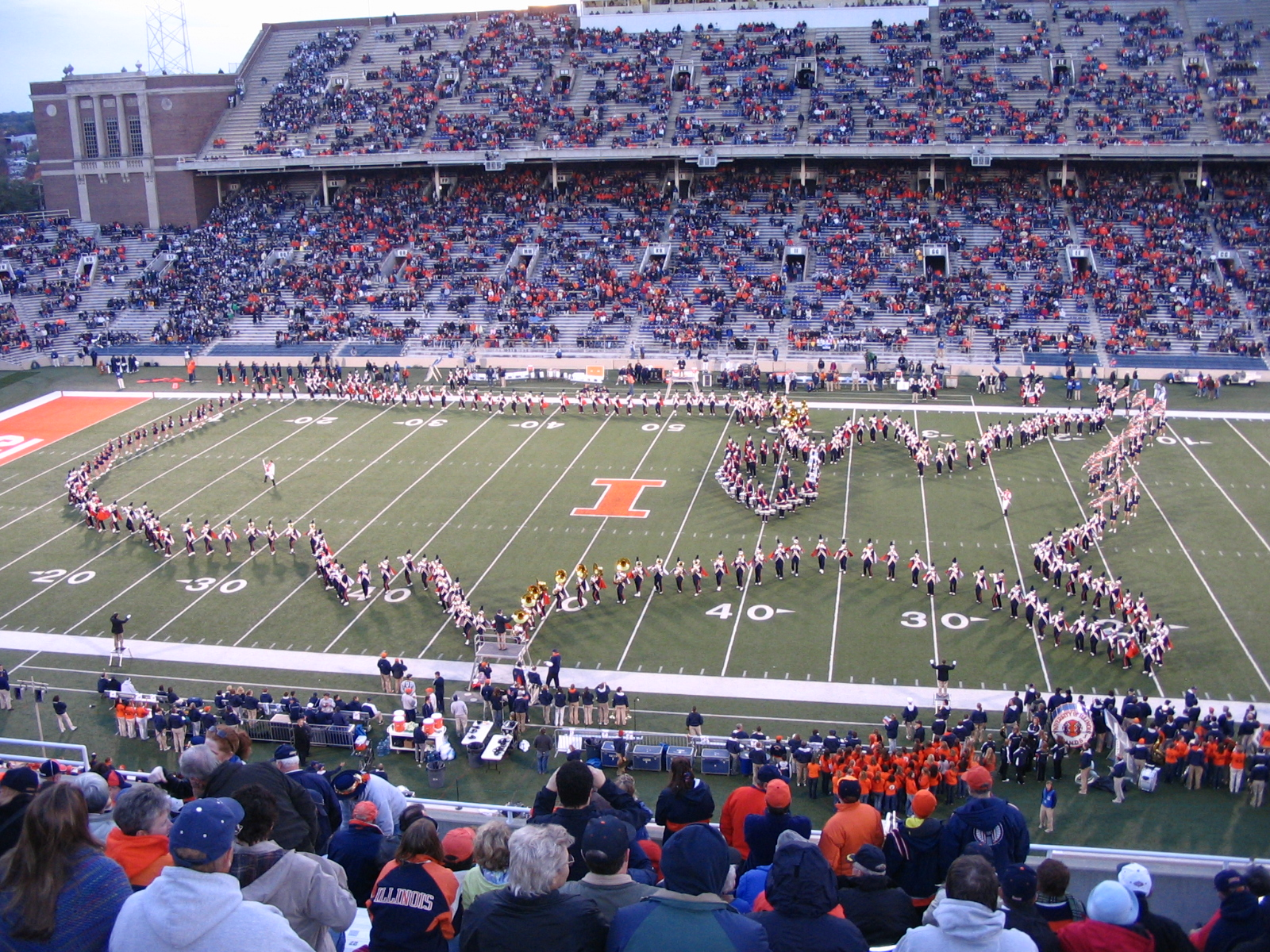 10/22/2005 University of Illinois Marching Illini in a formation of the USA during Pre-Game.